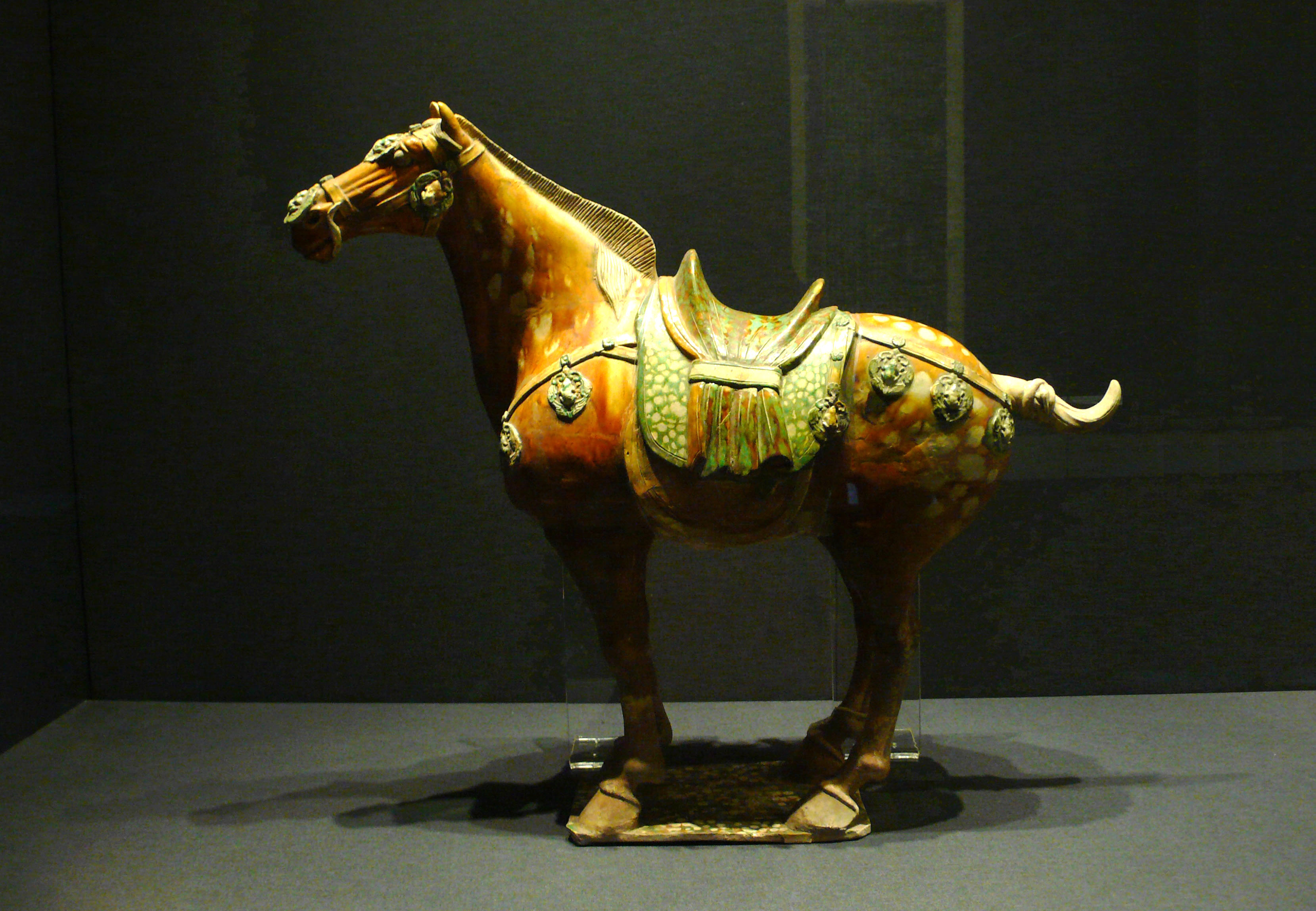 Palace Museum, Beijing. Sancai horse, Tang Dynasty, 618–907 A.D.